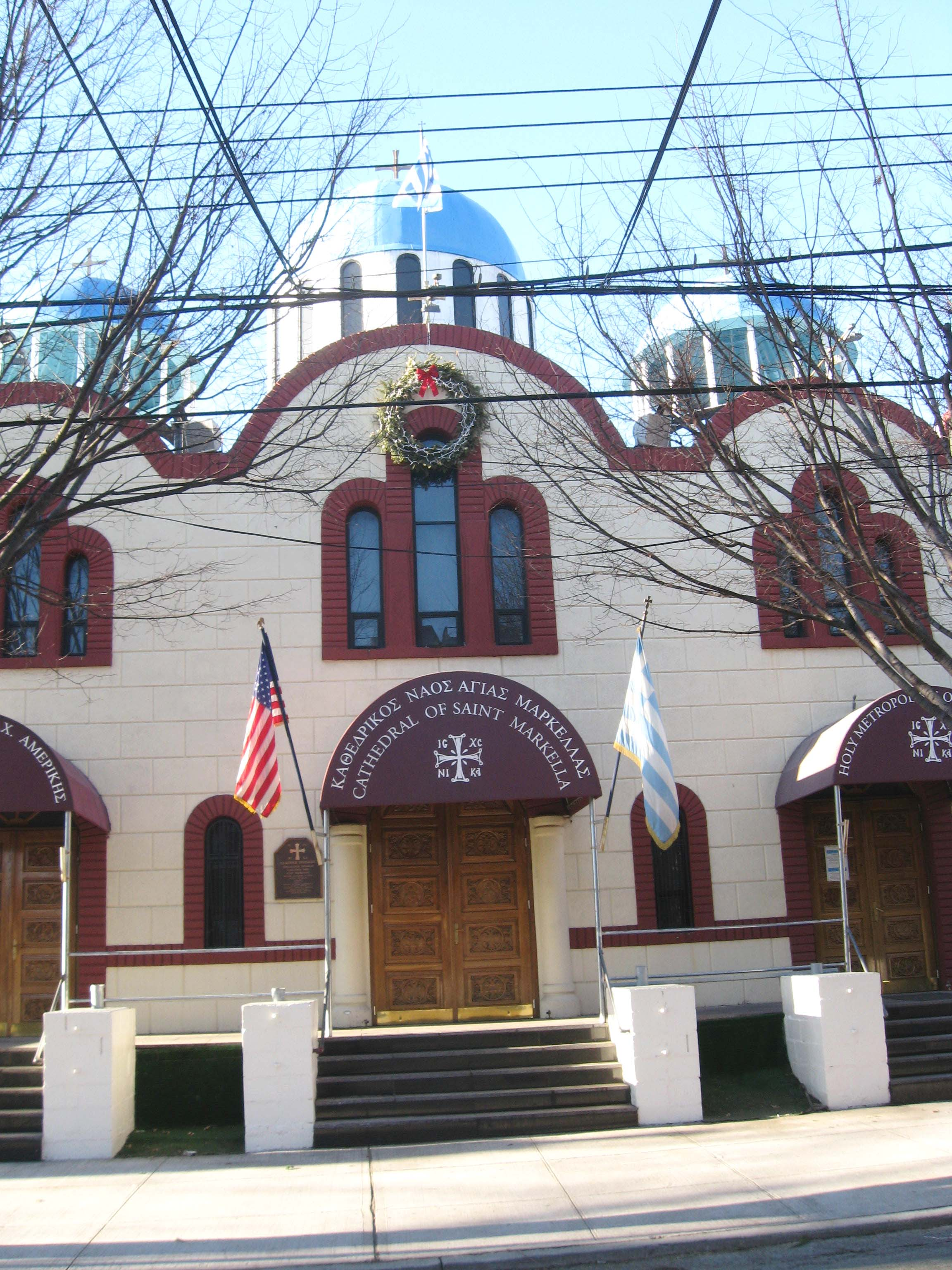 Looking west across 26th Street, north of 23rd Avenue, at Saint Markella Greek Orthodox Cathedral on a sunny afternoon in Queens, NYC